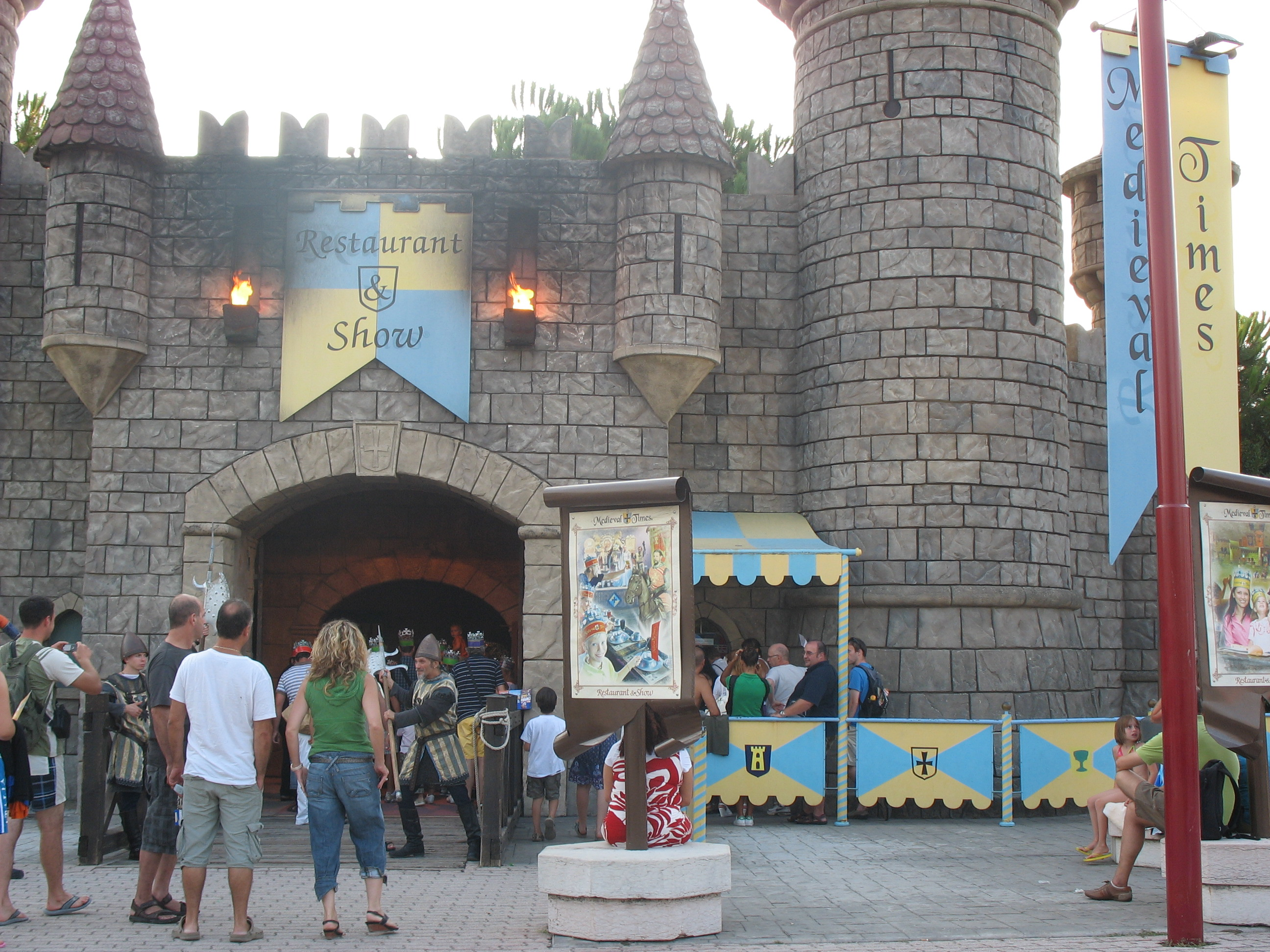 Medieval Times show at Canevaworld, Lazise, Italy, August 10, 2009. About 15 minutes before the show beginning.